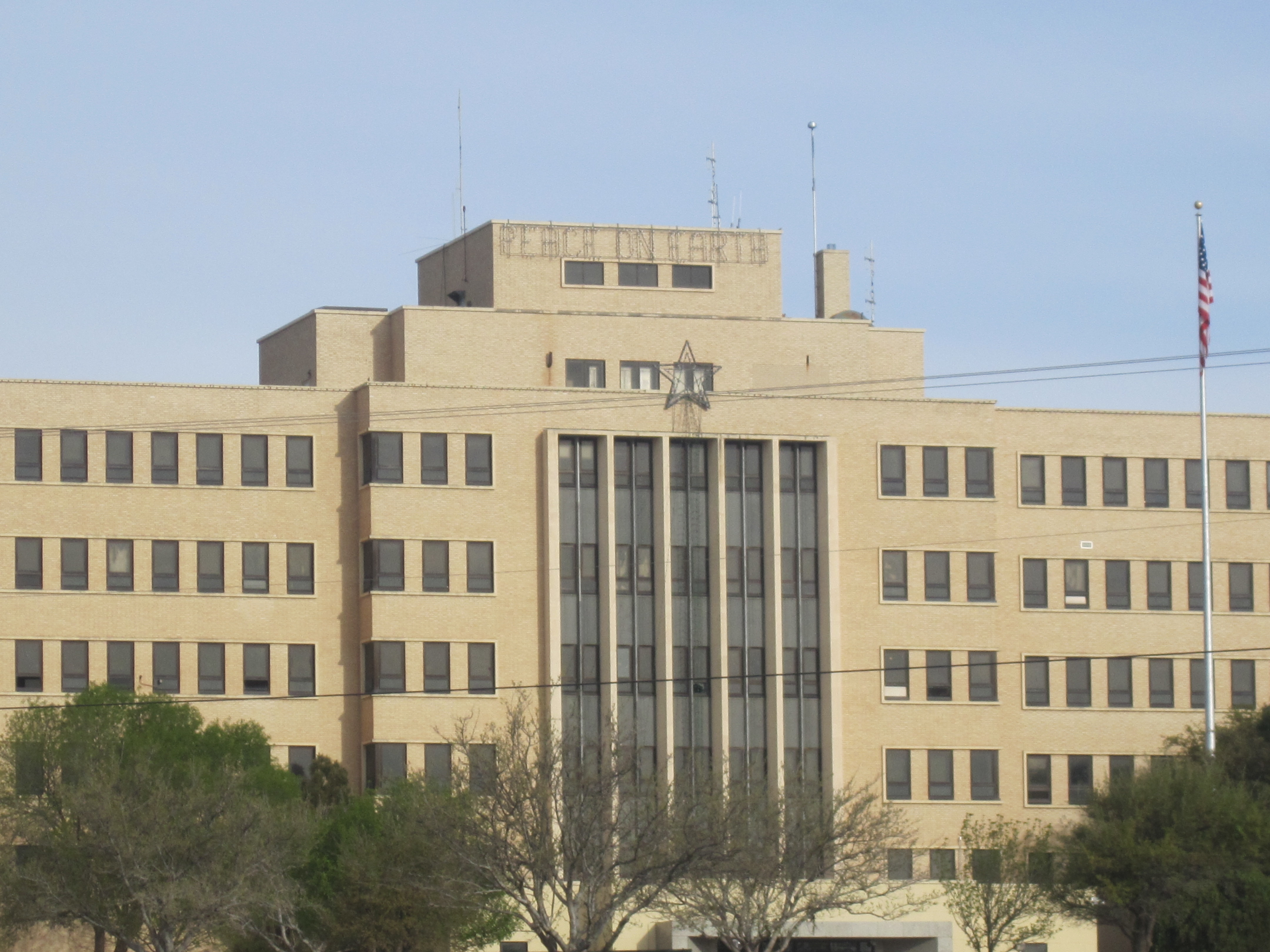 I took photo with Canon camera in Big Spring, TX.